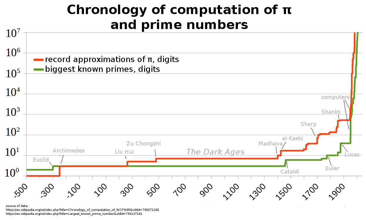 Chronology of computation of π and prime numbers. Red line - record approximations of π, digits, green line - biggest known primes, digits. Selected mathematicians who made the record calculations are shown. Sources of data 1, 2